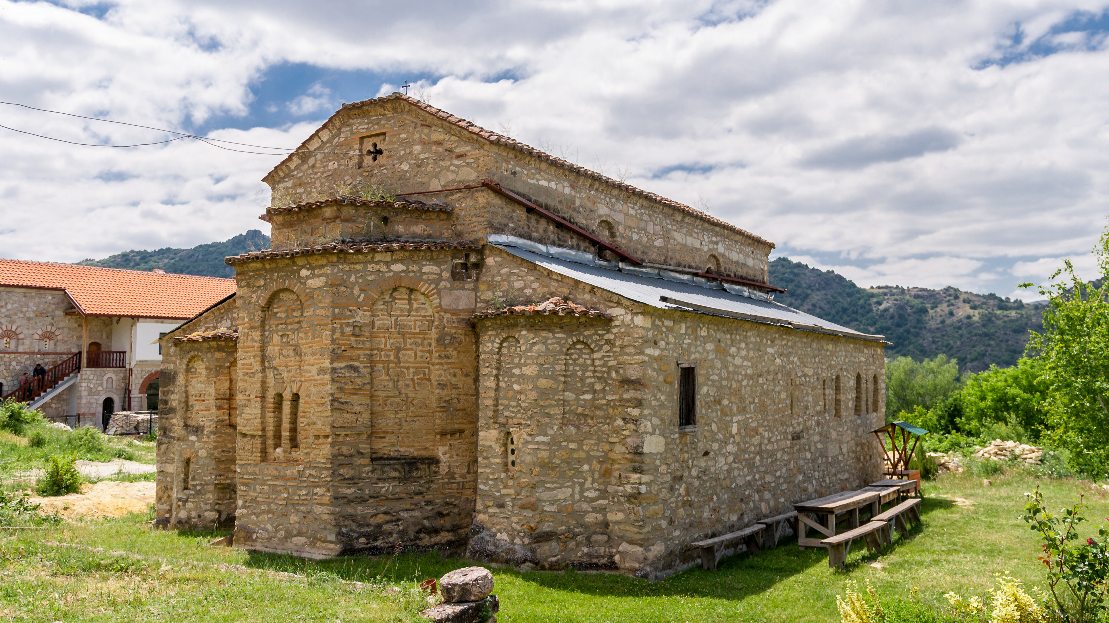 View of the Manastir Monastery